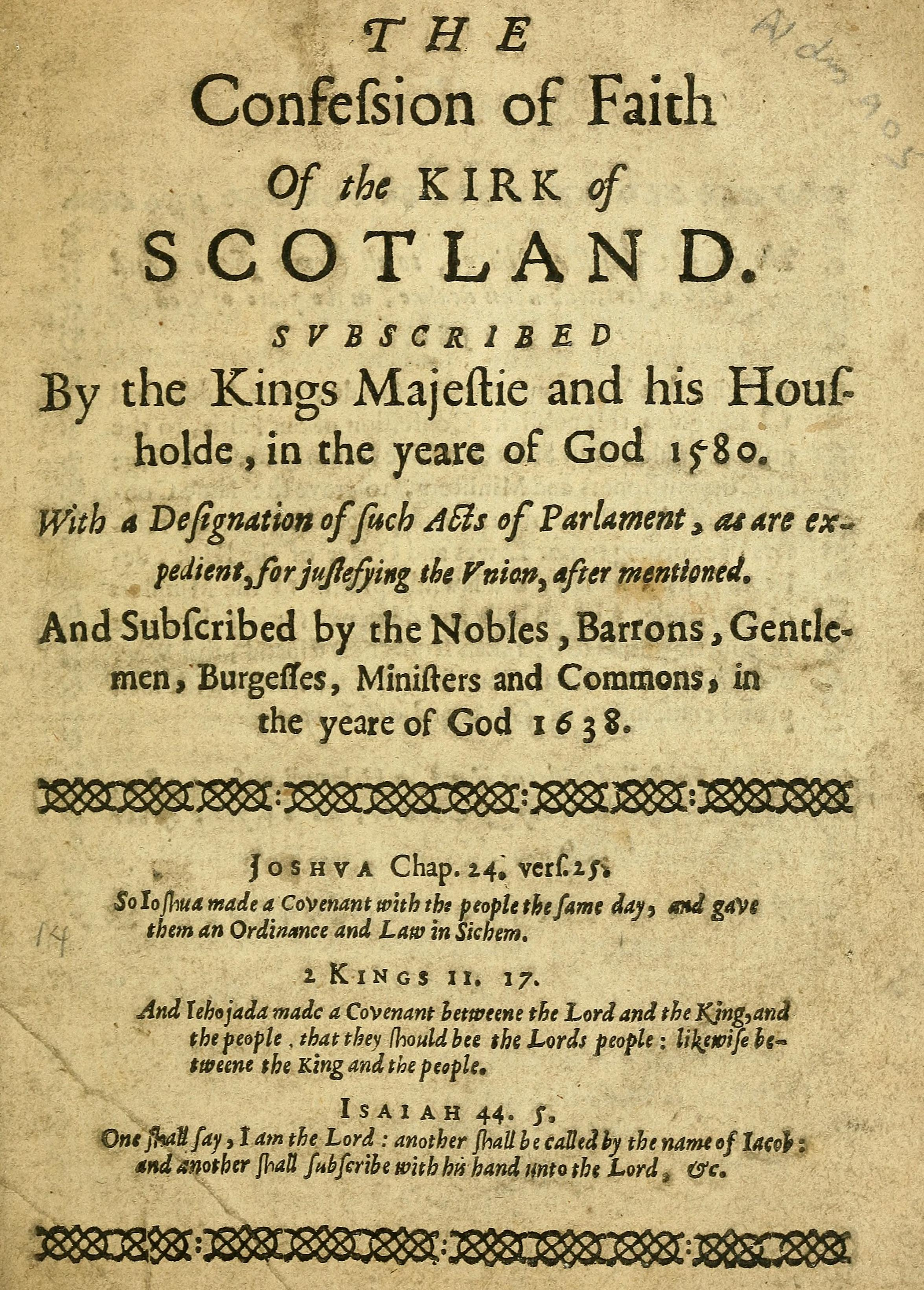 Title of Scots Confession